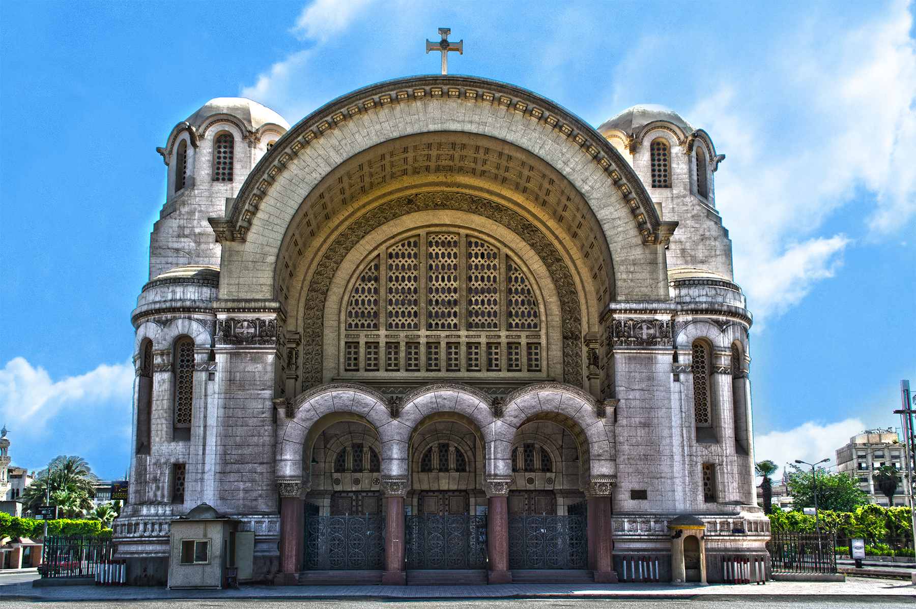 Notre Dame Basilica of Héliopolis